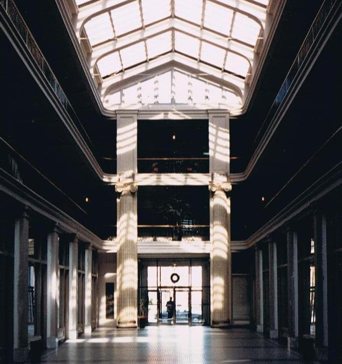 Interior of Monticello Arcade, Norfolk, Virginia, USA. Decorated for Christmas, December 1985.